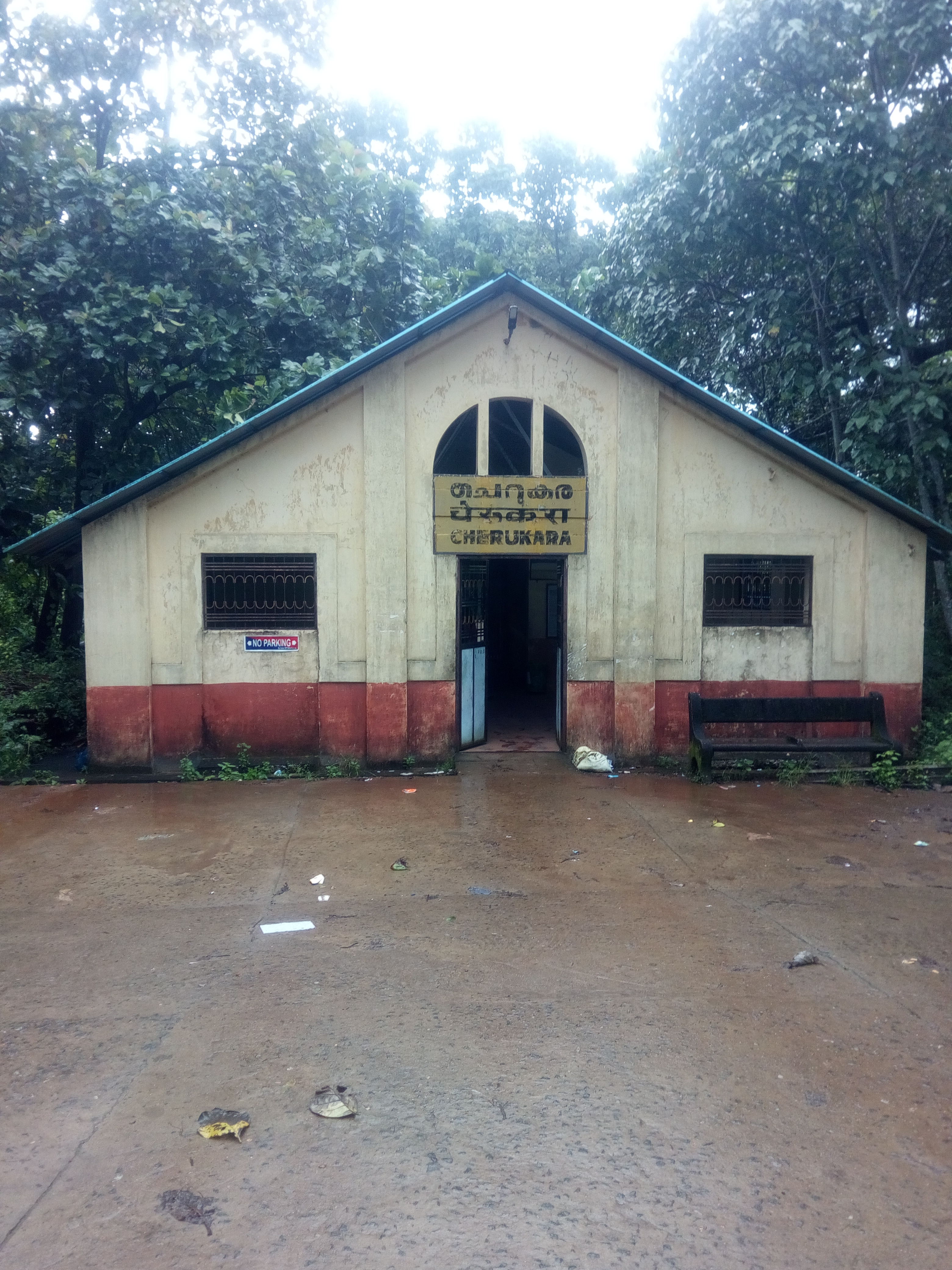 Cherukara railway station is a small a station at shornur Nilambur route.